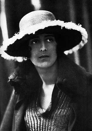 Vita Sackville-West 1919